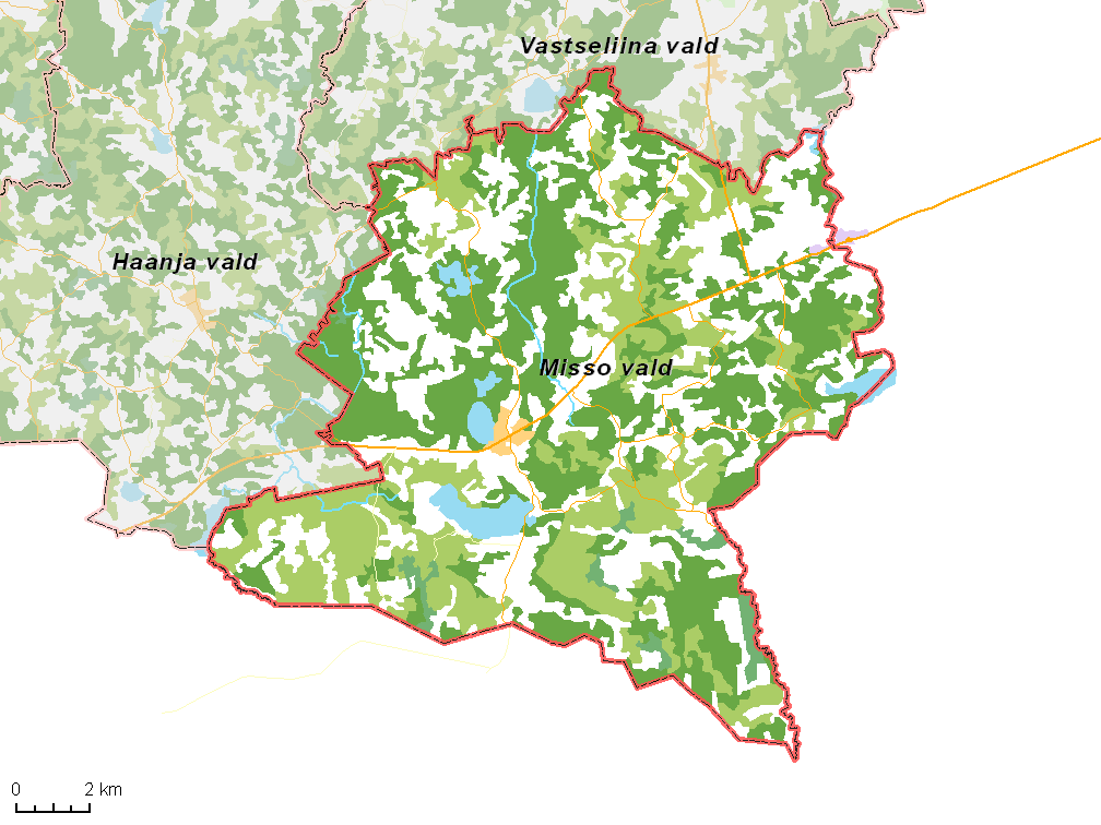 Map of municipality in Estonia